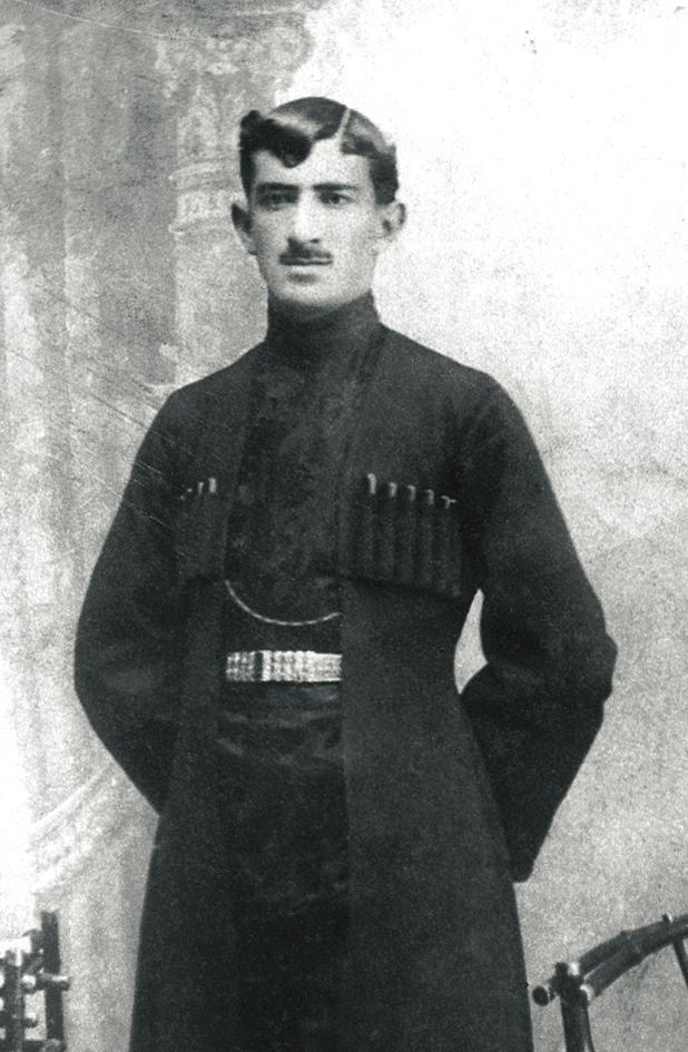 Famous Azerbaijani singer Bulbul